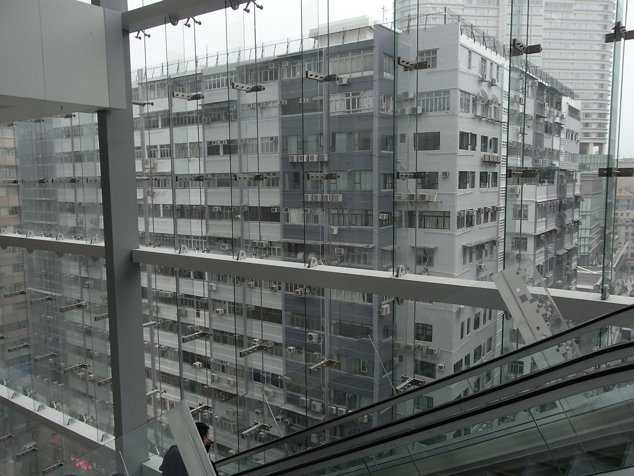 尖沙咀ISQUARE